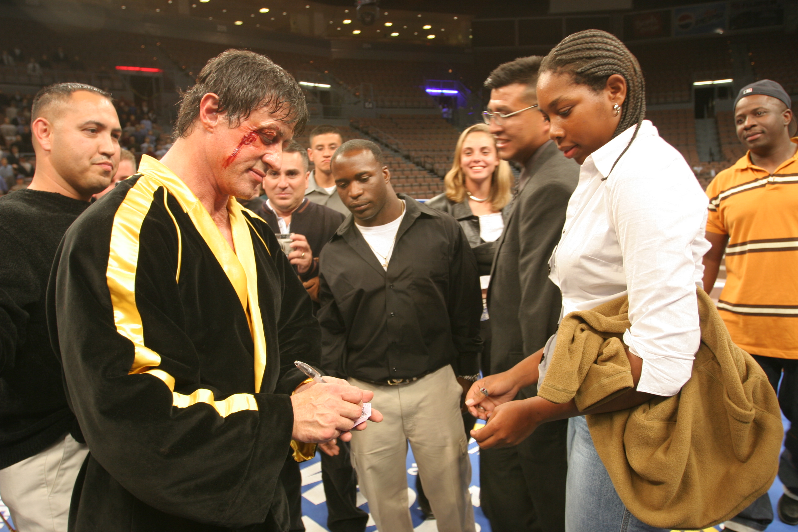 Actor Sylvester Stallone, who plays Rocky in the upcoming 'Rocky' VI movie, signs an autograph for Camp Pendleton Marine Lance Cpl. Lakeya Benton at the Mandalay Bay in Las Vegas Dec. 6. Camp Pendleton boxing coach Anthony J. Gonzales took his team and other Marines to Las Vegas to boost morale and confidence.